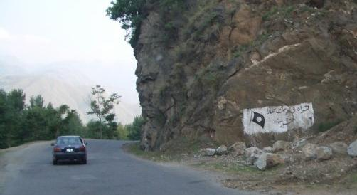 Tehreek-e-Nafaz-e-Shariat-e-Mohammadi Graffiti in Pakistan